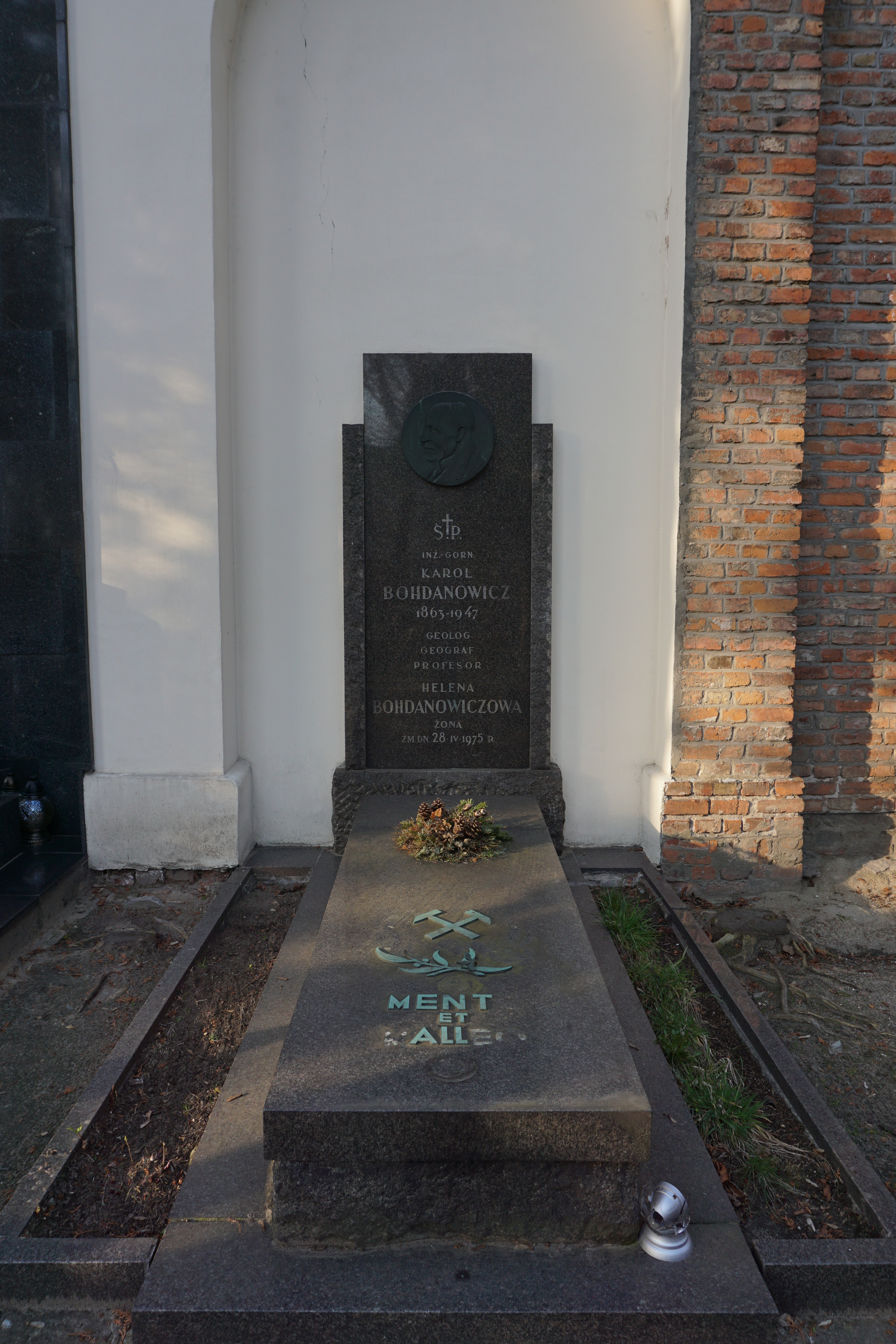 The grave of Karol Bohdanowicz at the Powązki Cemetery (Avenue of Deserved, grave 28)